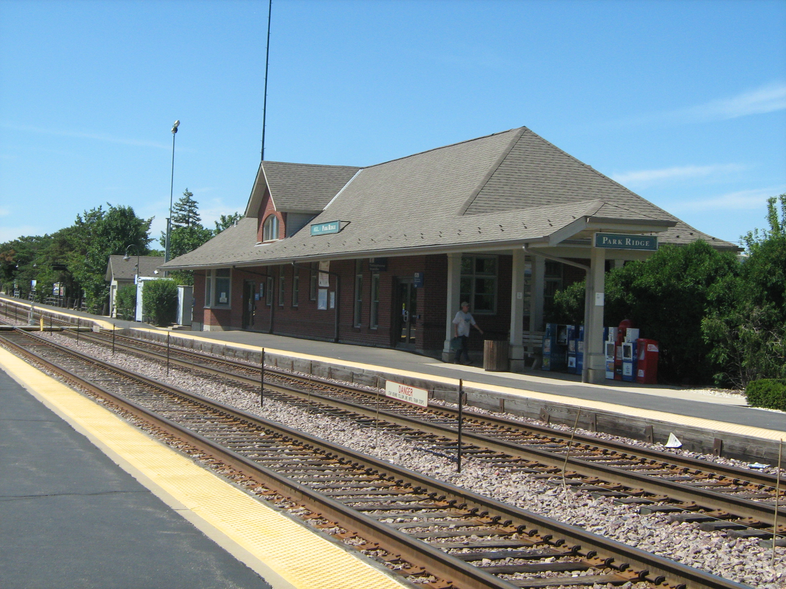 100 S Summit Ave Park Ridge, IL 60068 Union Pacific Northwest Line Zone C